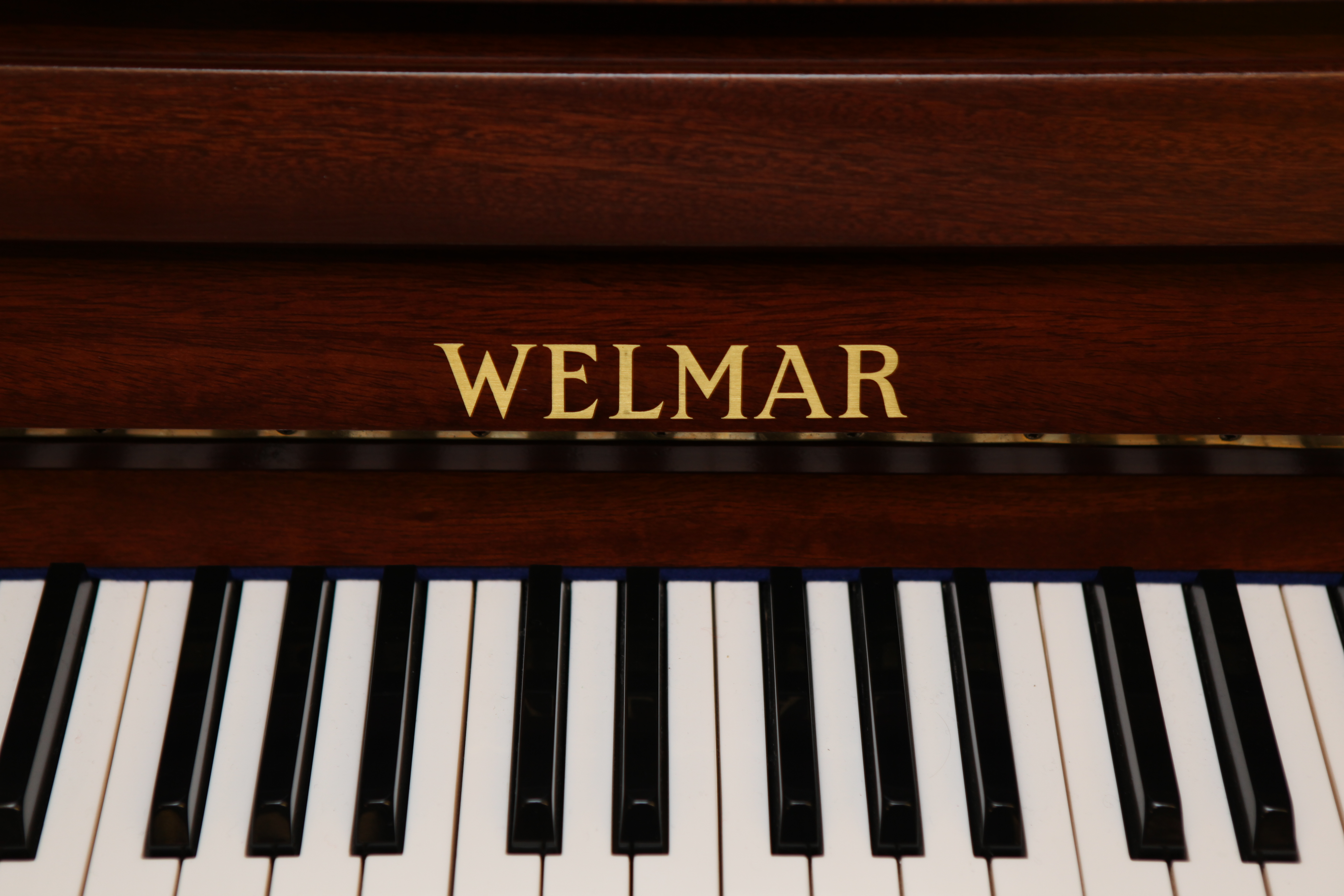 Welmar piano logo on upright piano made c1980